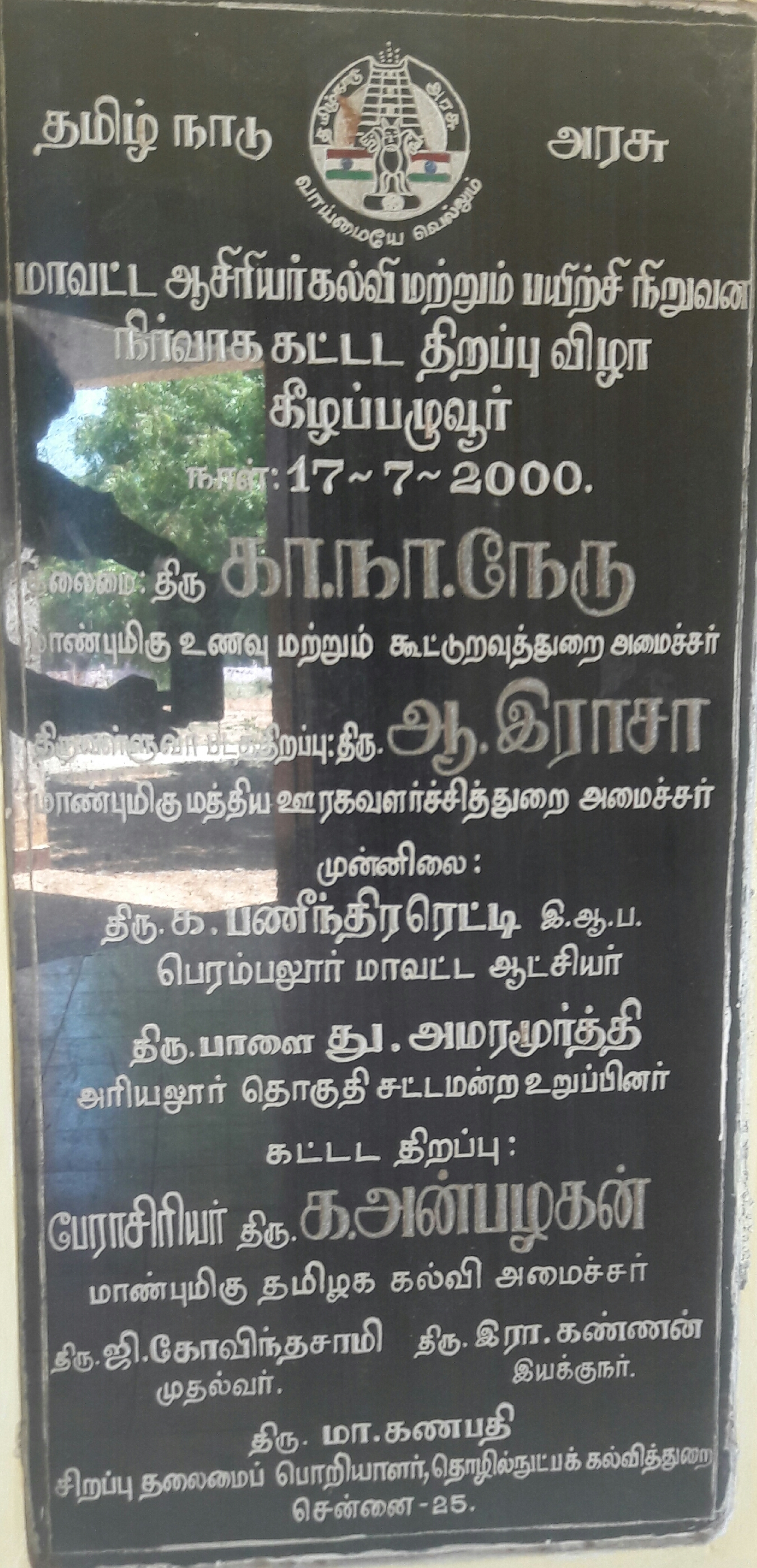 diet openning sculpture